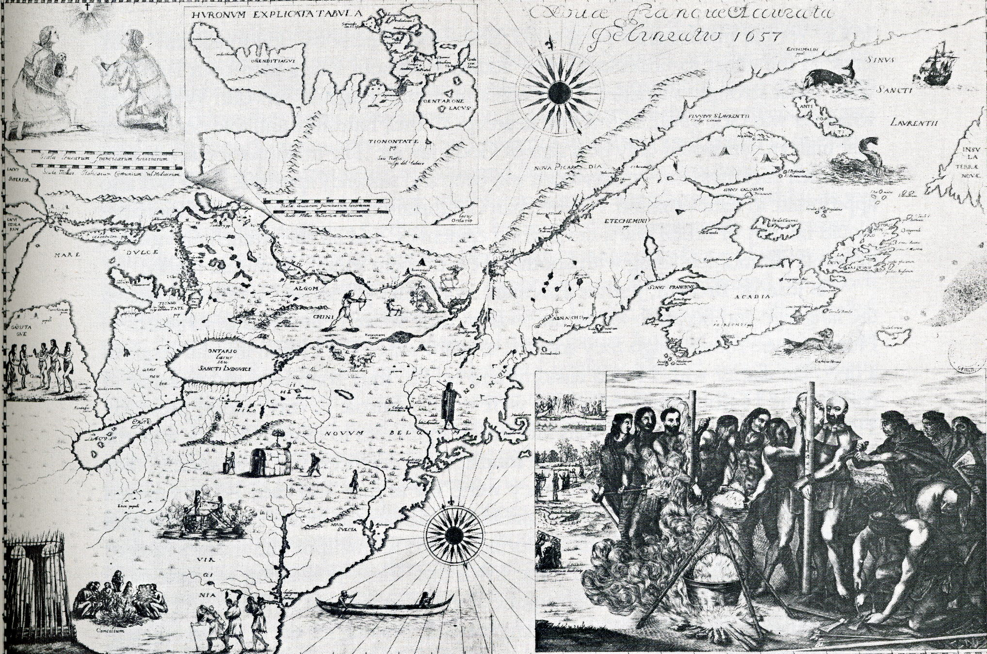 carte de Nouvelle France, Jésuites, 1657 Novae Franciae accurata delineatio, Bressani, Francesco Giuseppe (1612-1672),1657